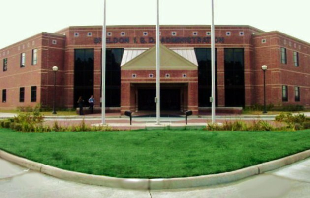 Sheldon Independent School District Administration Building